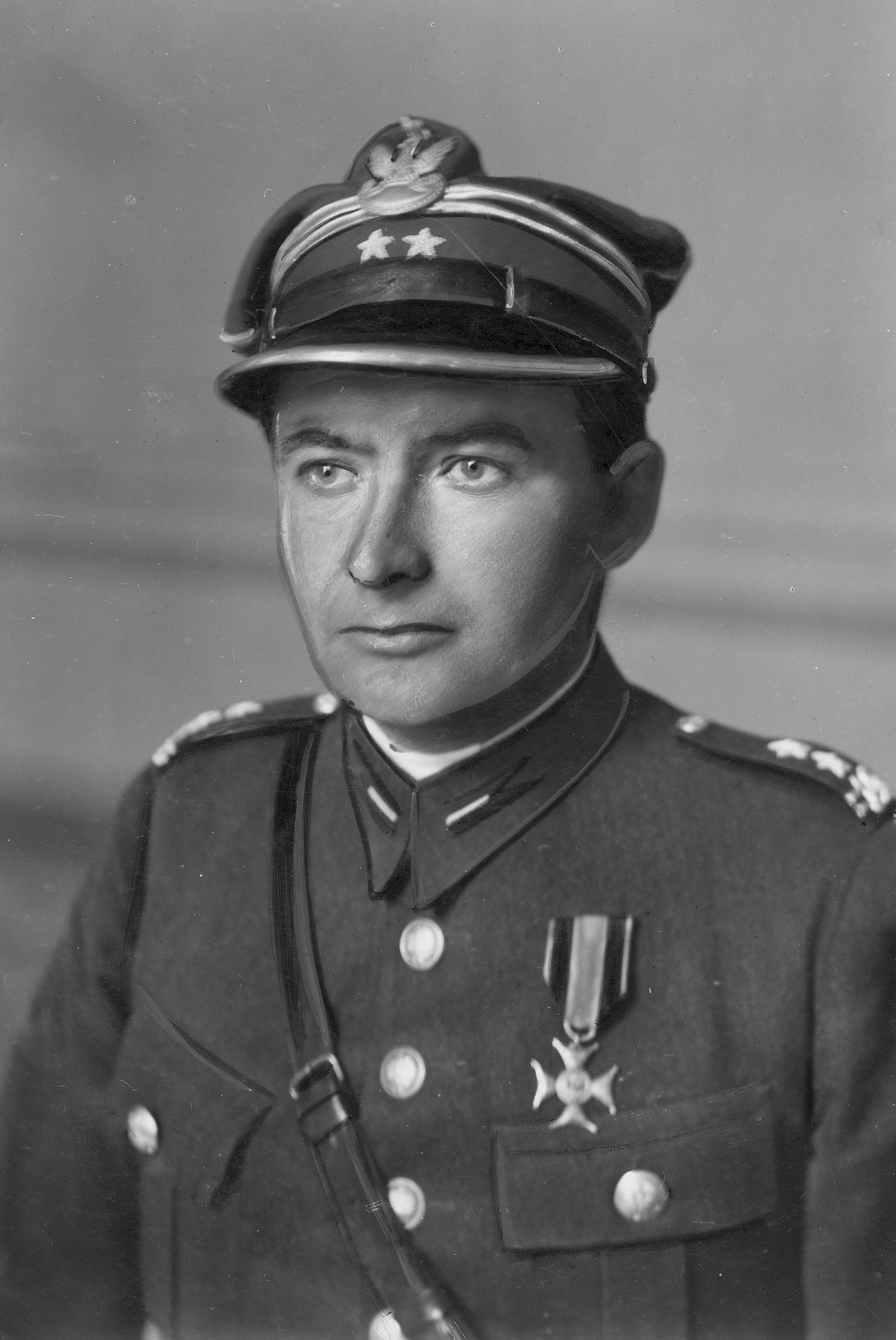 Andrzej Kunachowicz, a certified lieutenant-colonel of the Polish Army.